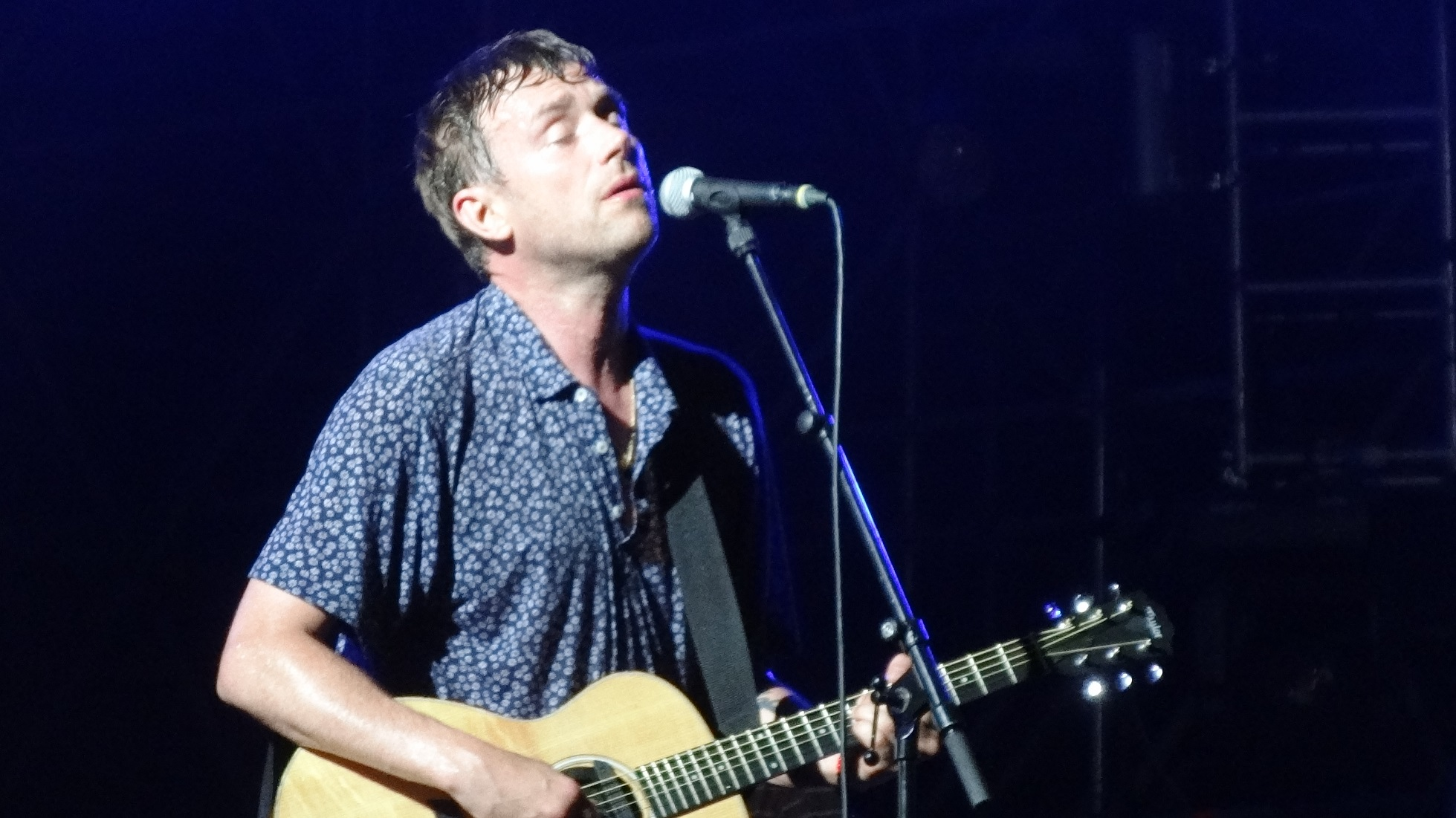 Blur 29.07.2013 in Rome